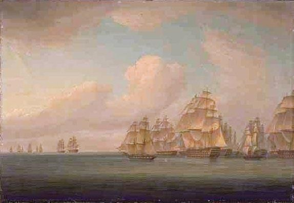 Allemand's French squadron in pursuit of a British conovy, 1805